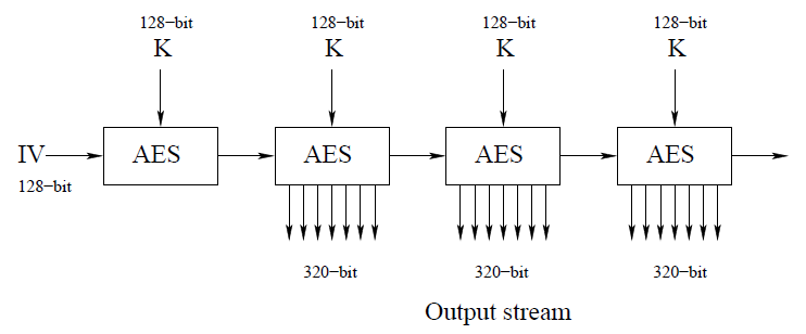 LEX keystream generation